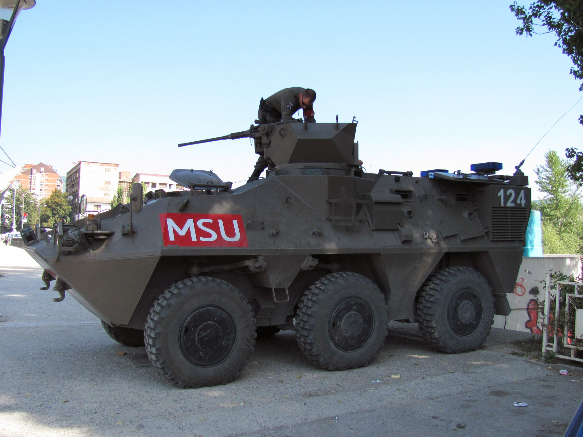 A tank and KFOR soldier near the New Bridge in Mitrovica, KosovoThis photograph was taken with a Canon PowerShot SX120 IS